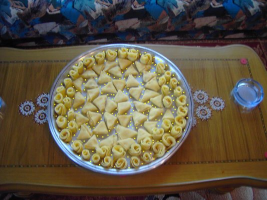 Dessert from Vrbjani village